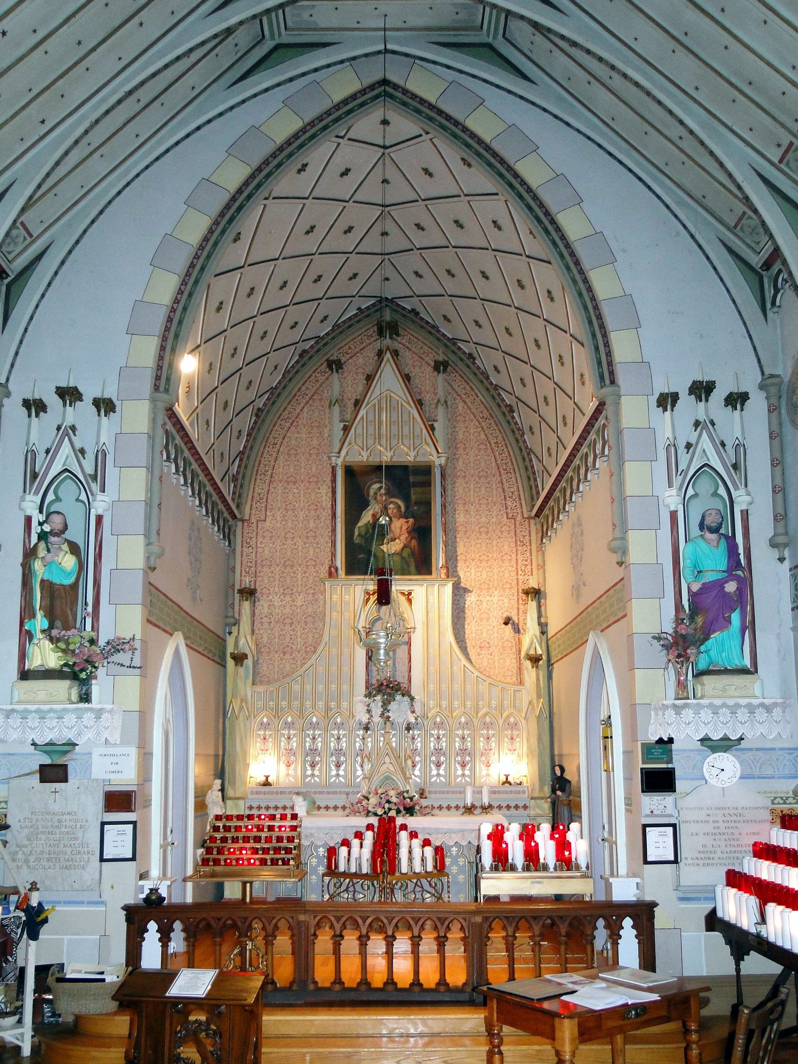 Interior of Saint Anne Chapel (1862), Varennes, province of Quebec, Canada